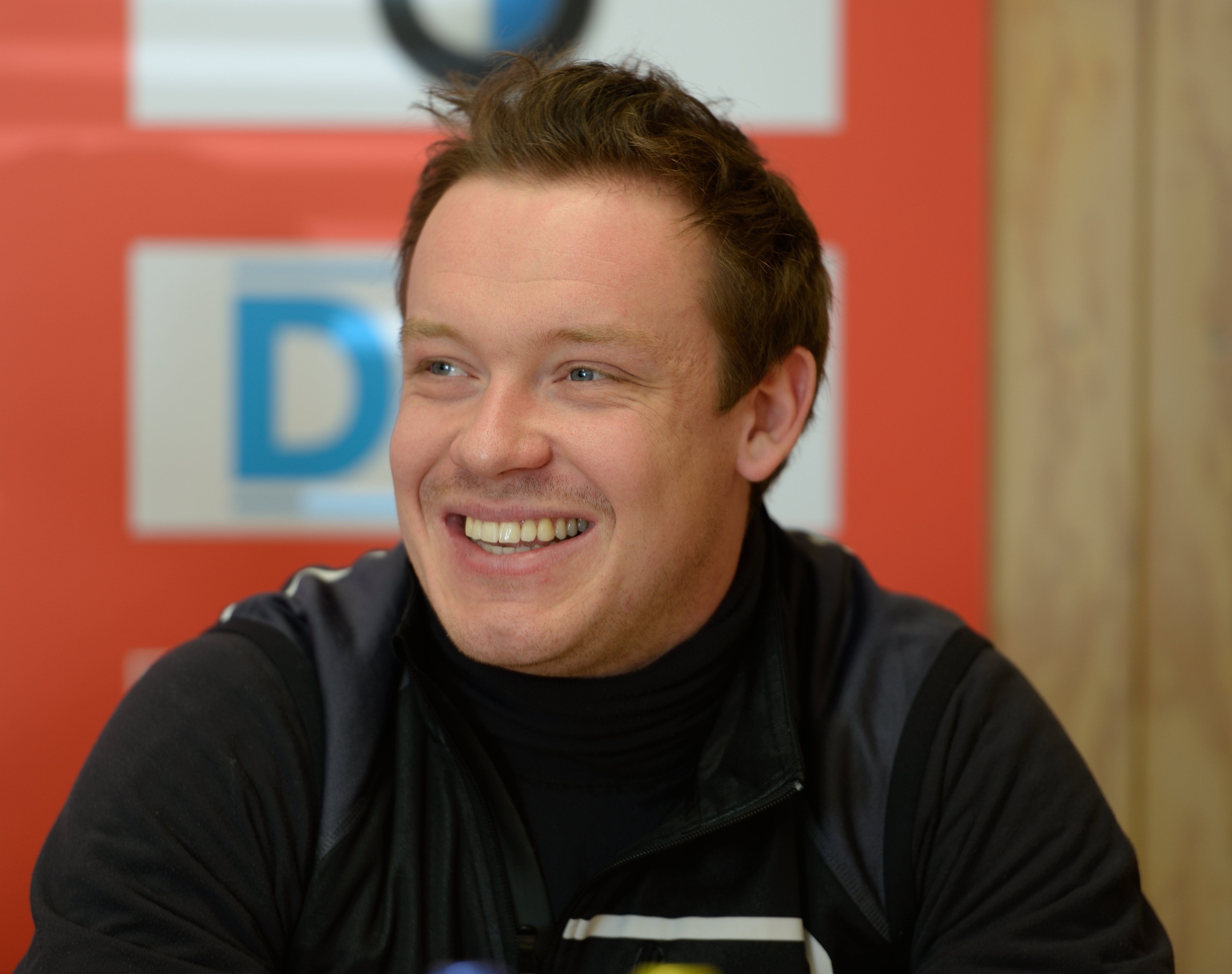 Luge world cup race season 2014/15 in Altenberg/Germany, 19th to 22nd Februar 2015. Day 1: training - press conference german team.